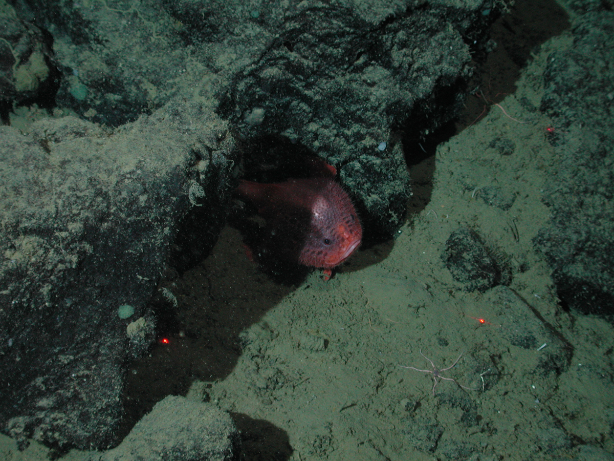 A rare anglerfish or sea toad (Bathychaunax coloratus syn. Chaunacops coloratus; Family Chaunacidae); measuring 20.5 cm in total length; on the Davidson Seamount at 2461 m depth. Small globular; reddish cirri; or hairy protrusions cover the body. The lure on the forehead is used to attract prey.